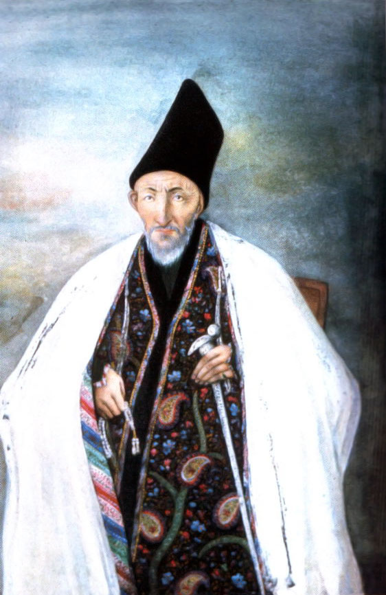 Hajj Mirza Aghasi